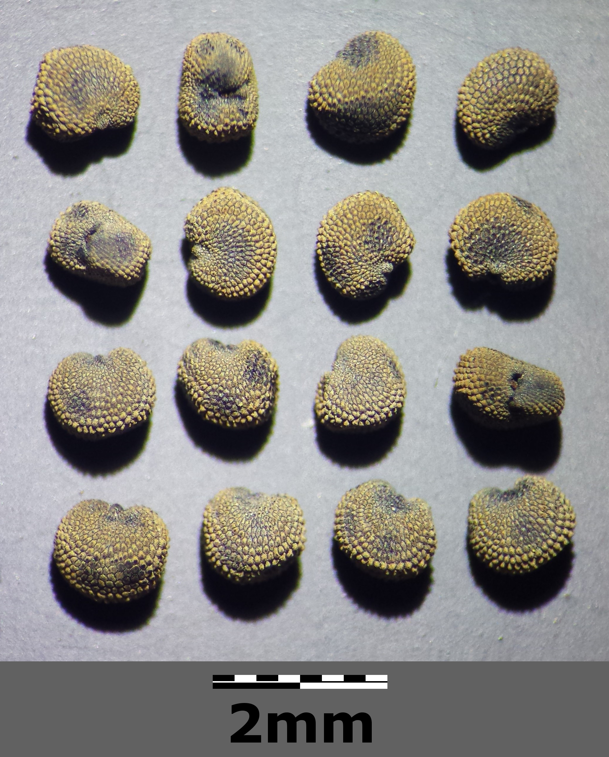 Seeds Taxonym: Silene noctiflora (ss Fischer et al. EfÖLS 2008; det. M. A. Fischer 2014-11-08) Location: Bierhäuselberg near Perchtoldsdorf , district Mödling, Lower Austria - ca. 350 m a.s.l. Habitat: wayside within a forest of Pinus nigra